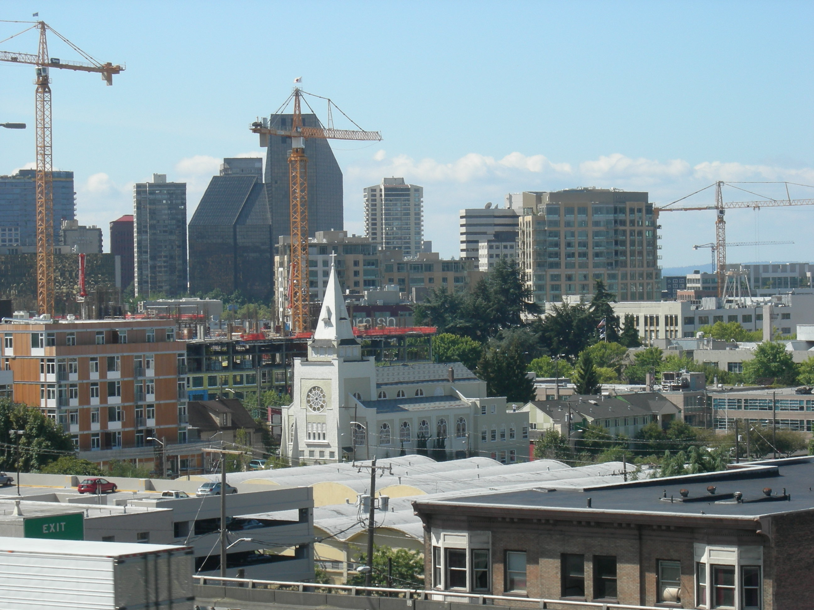 Immanuel Lutheran Church in the Cascade / South Lake Union district of Seattle, seen from Capitol Hill, Seattle, Washington. The church is on the National Register of Historic Places, ID #82004239.